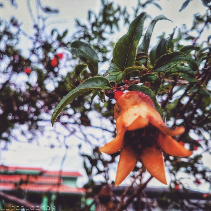 Romã flower